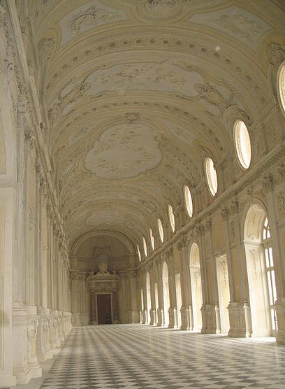 Palace of Venaria Reale, Grand Gallery